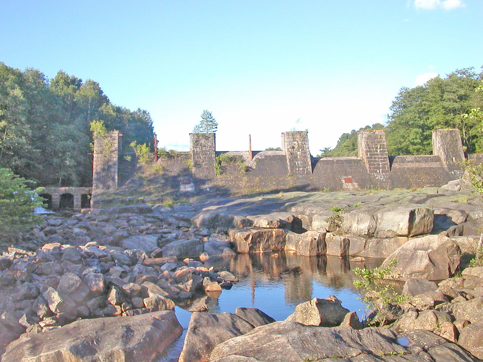 Yngeredsfors Old Power Station, no longer in use